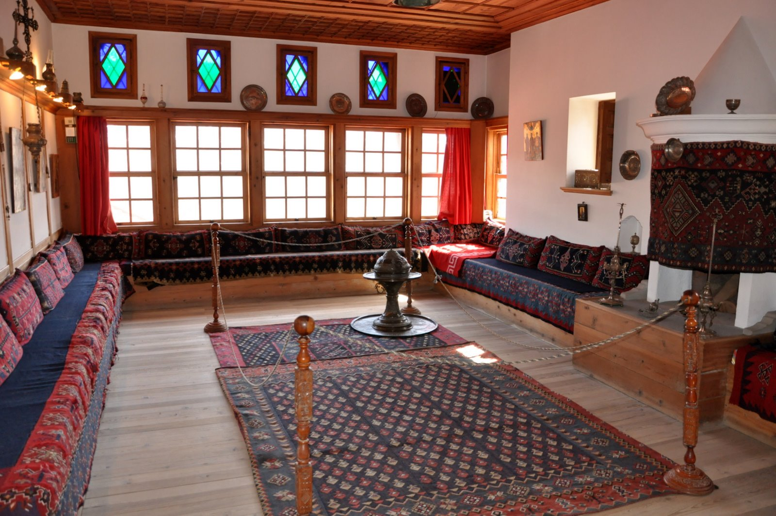 The main room in the Averoff-Tositsa House, now the private museum. The photo is taken with the kindess of the Management of that museum. In similar homes, Greek merchants lived in a places even thousands kilometres away from todays Greece, like Trapezuntas (now: Trabzon in Turkey) or Suchumi.